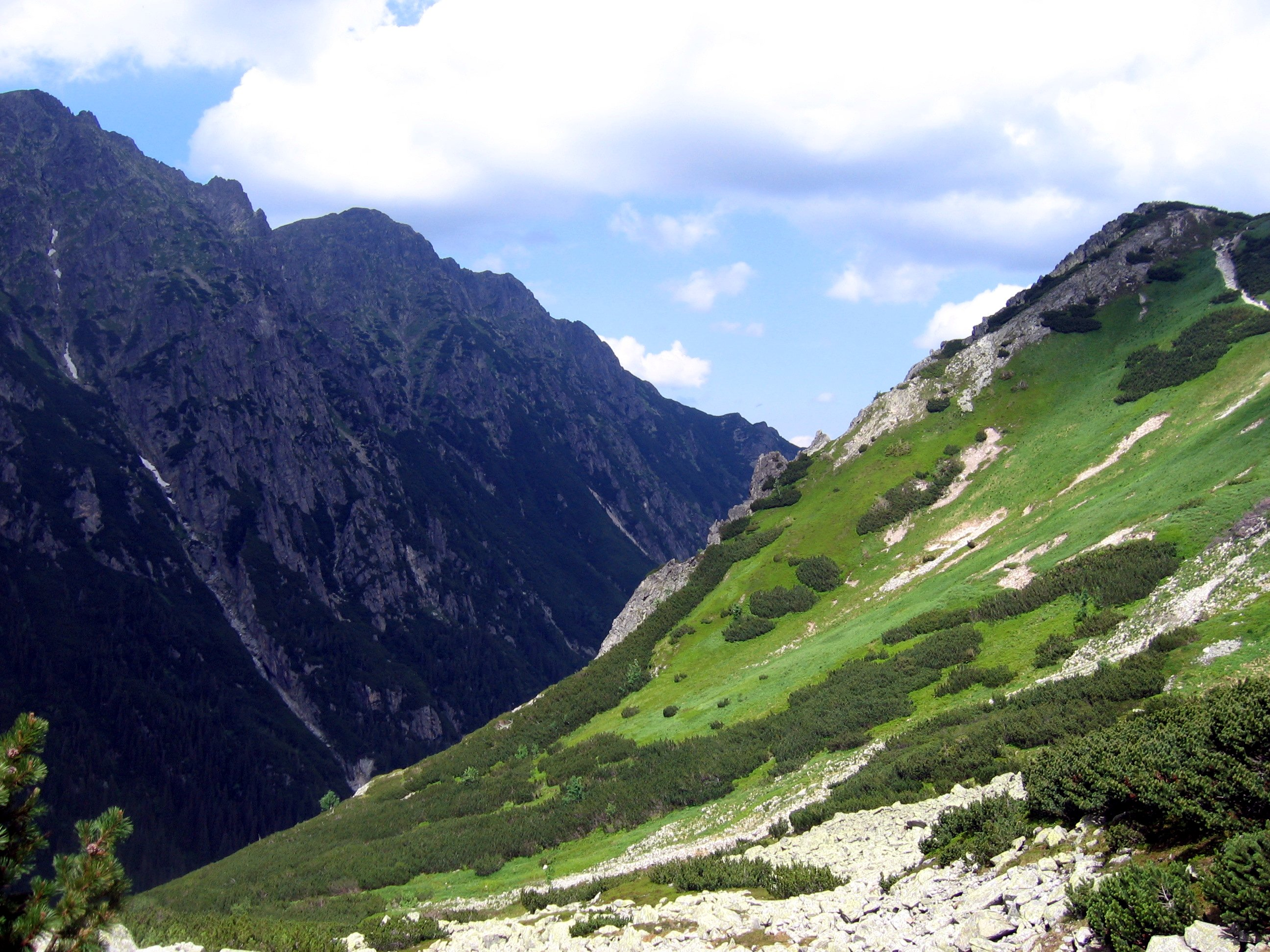 Mountain Pine type subspecies (Pinus mugo subsp. mugo) in a natural habitat, Tatra National Park, Poland.